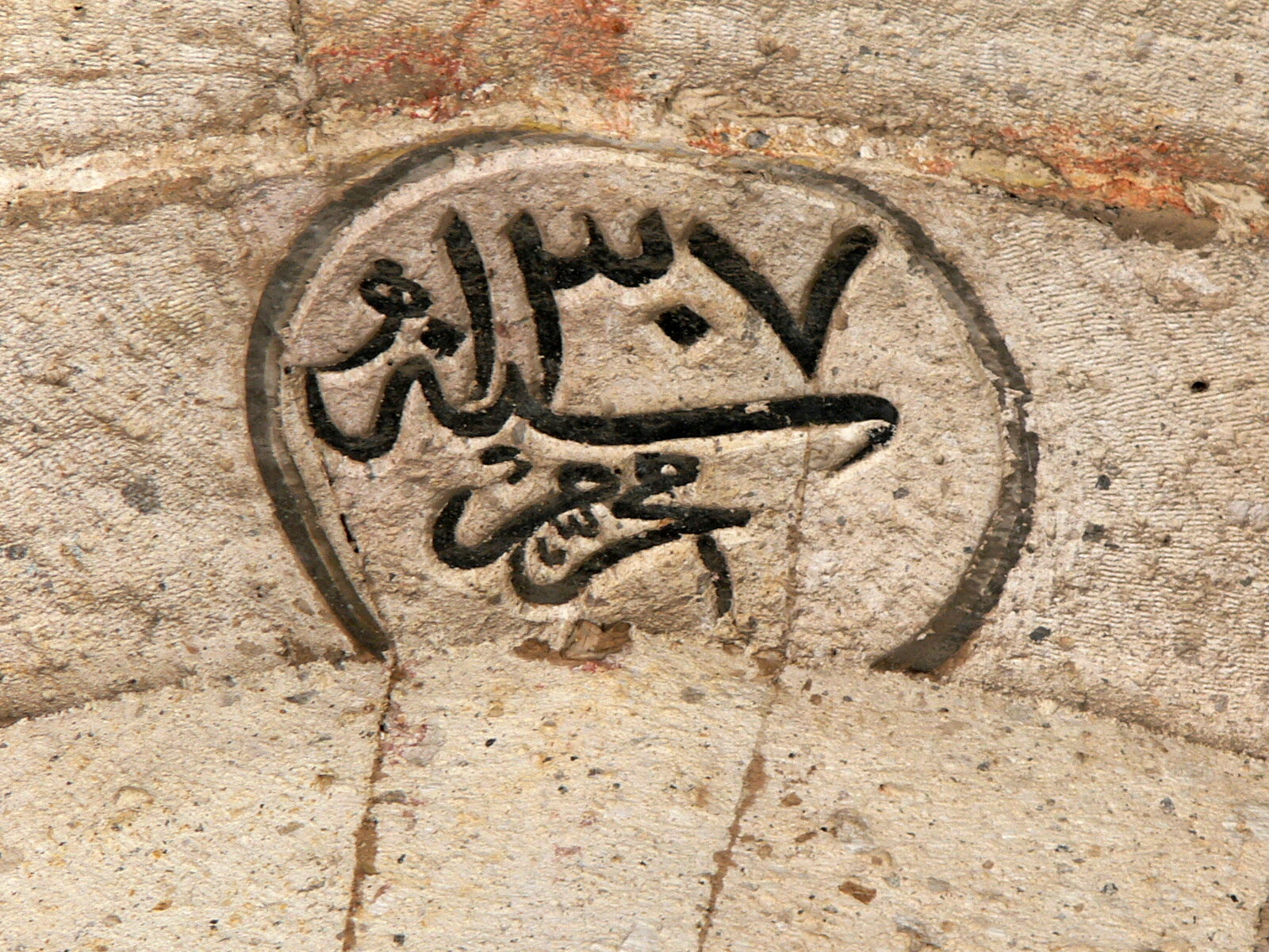 Arabic inscription at the entrance of the Mevlâna mausoleum of Rumi. Mevlâna Museum — Konya, Central Anatolia, Turkey.